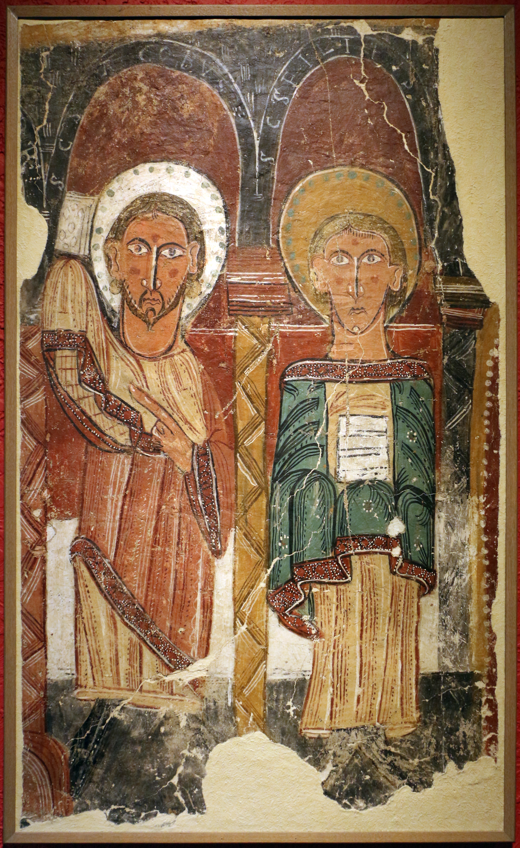 Paintings in the Toledo Museum of Art